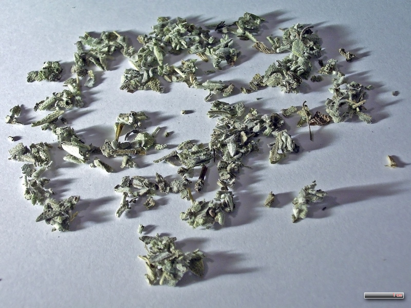 dried Salvia officinalis (Garden sage, Common sage) Leaves